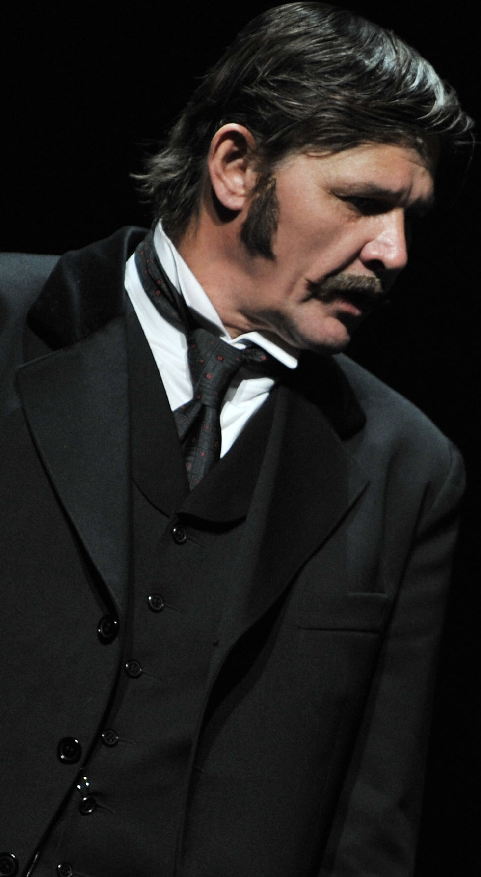 Martin Havelka